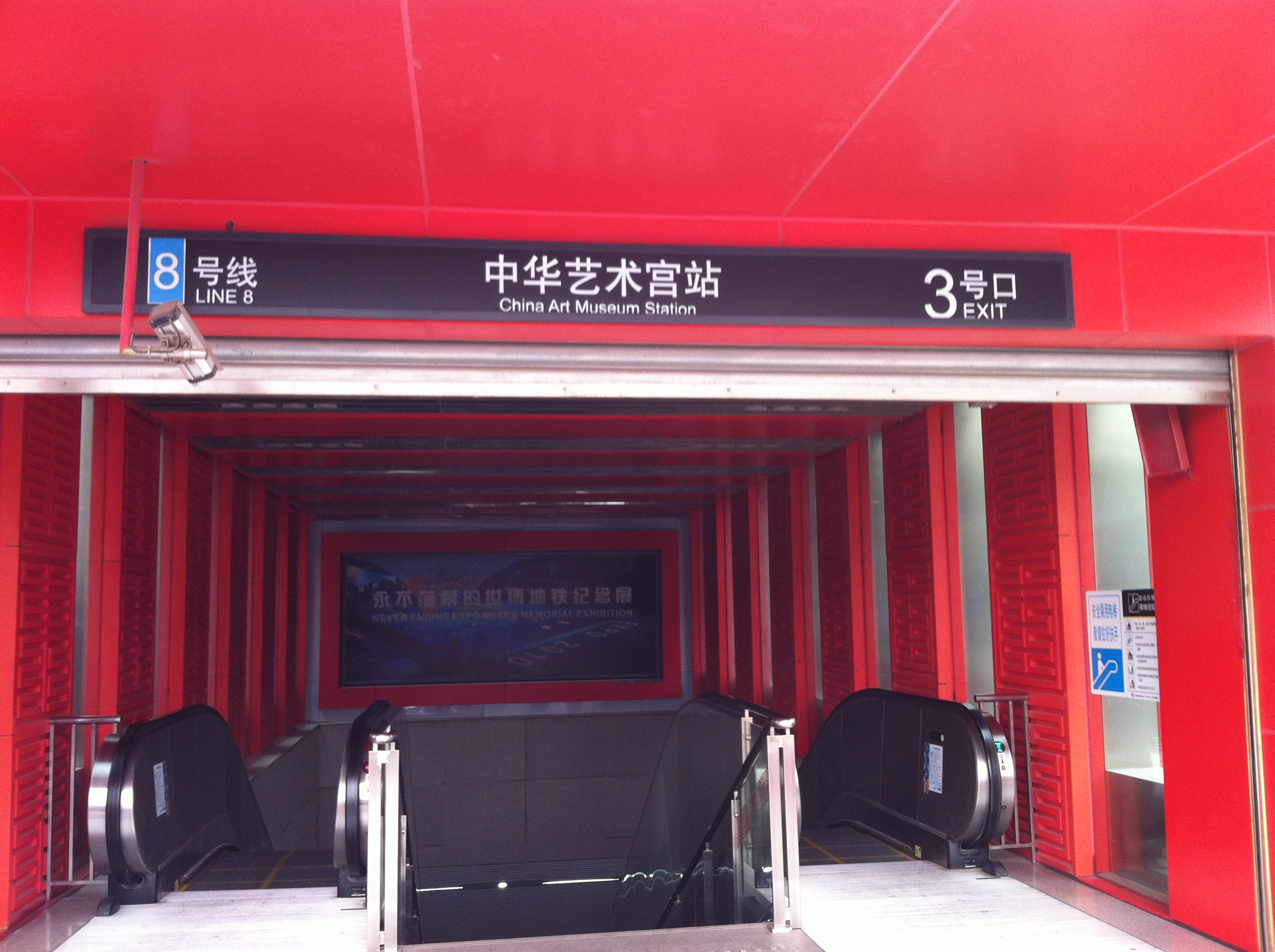 The third exit of China Art Museum Station of Line 8, Shanghai Metro.